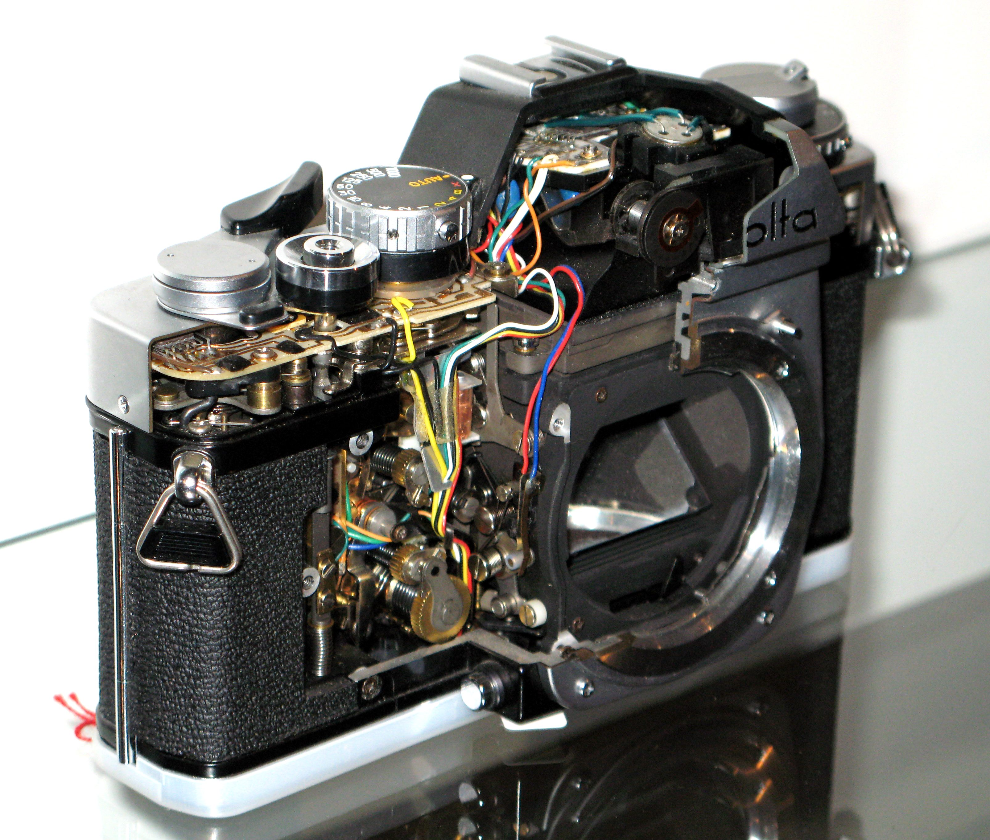 Cut-over Minolta SLR camera on display at Vevey photography museum